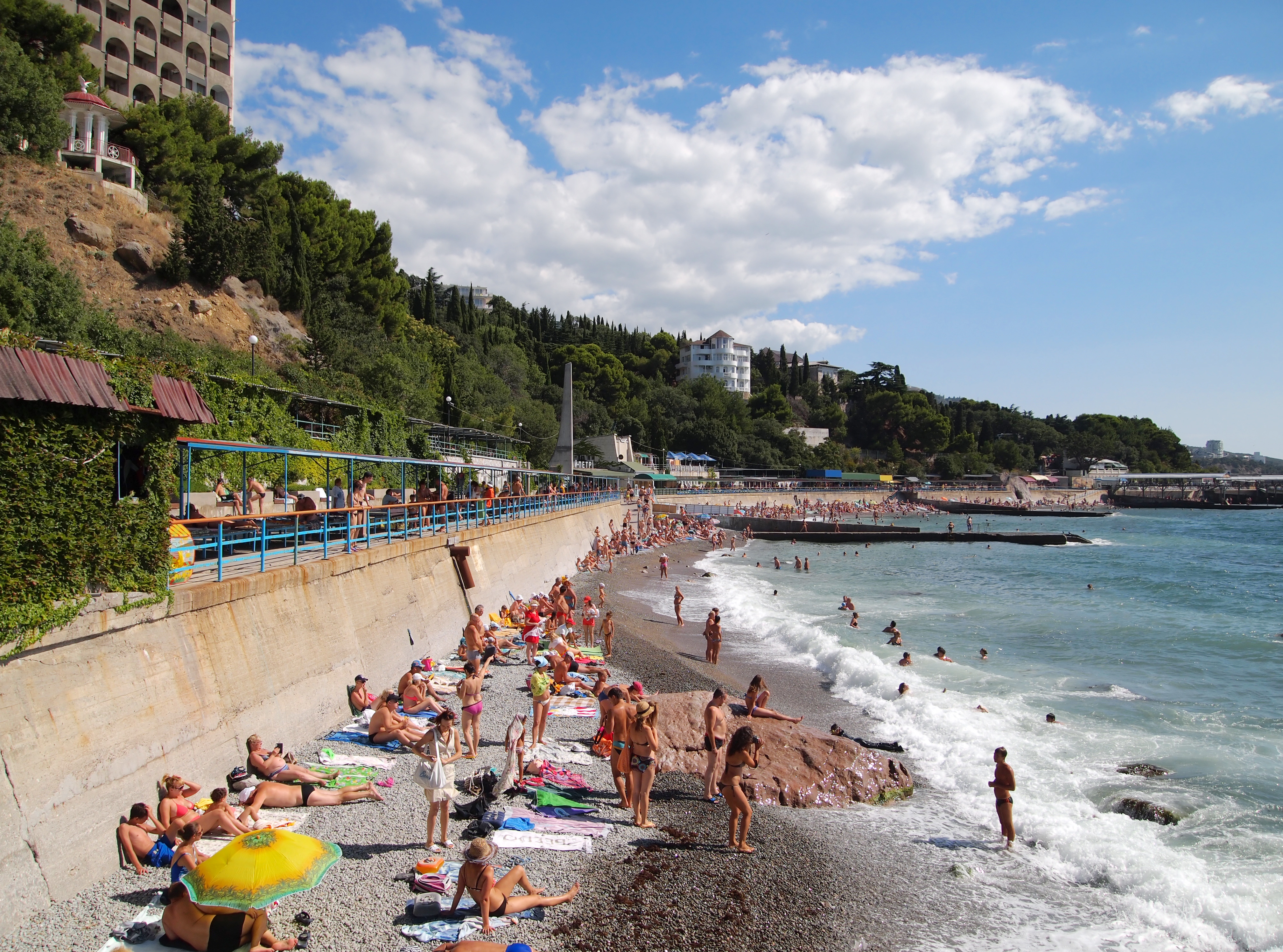 View on the beach of Koreiz townlet in Ukraine. This photograph was taken with an Olympus E-PL1